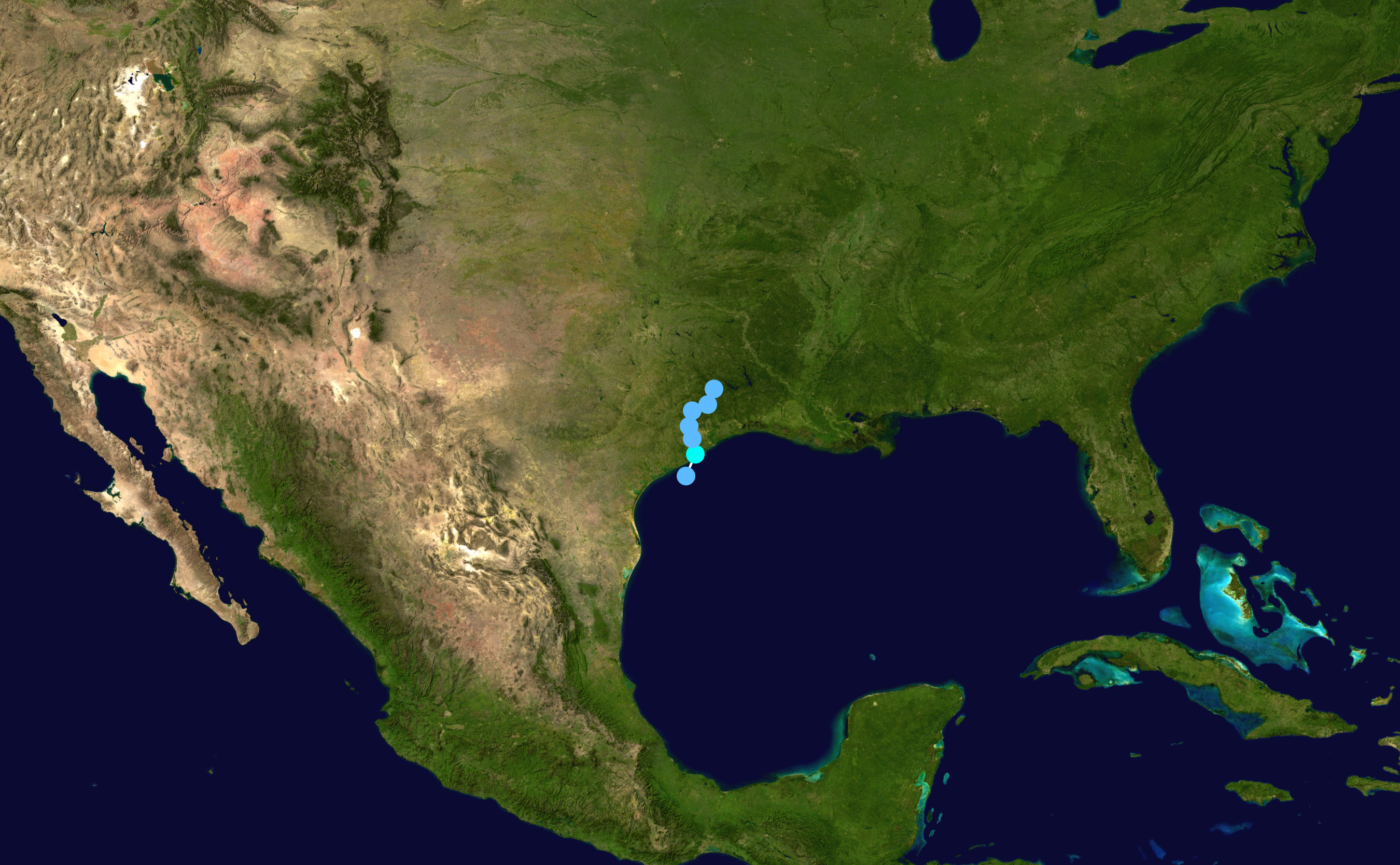 Track map of Tropical Storm Imelda of the 2019 Atlantic hurricane season. The points show the location of the storm at 6-hour intervals. The colour represents the storm's maximum sustained wind speeds as classified in the Saffir–Simpson scale (see below), and the shape of the data points represent the nature of the storm, according to the legend below. Saffir–Simpson scale Tropical depression≤38 mph≤62 km/h Category 3111–129 mph178–208 km/h Tropical storm39–73 mph63–118 km/h Category 4130–156 mph209–251 km/h Category 174–95 mph119–153 km/h Category 5≥157 mph≥252 km/h Category 296–110 mph154–177 km/h Unknown Storm type Tropical cyclone Subtropical cyclone Extratropical cyclone / Remnant low / Tropical disturbance / Monsoon depression